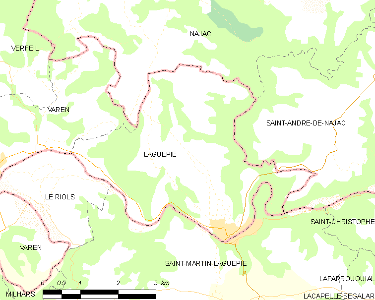 Map of French municipality Laguépie